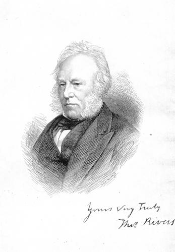 Portrait of Thomas Rivers (1798–1877), English nurseryman.